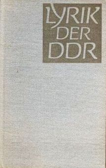 Book cover of Lyrik_der_DDR,_Uwe_Berger, Günther Deicke_[Hrsg.]_1976